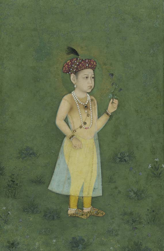 Prince Shah Shuja from the Late Shah Jahan Album, India, Mughal Dynasty, 1650. Opaque watercolor, ink and gold on paper